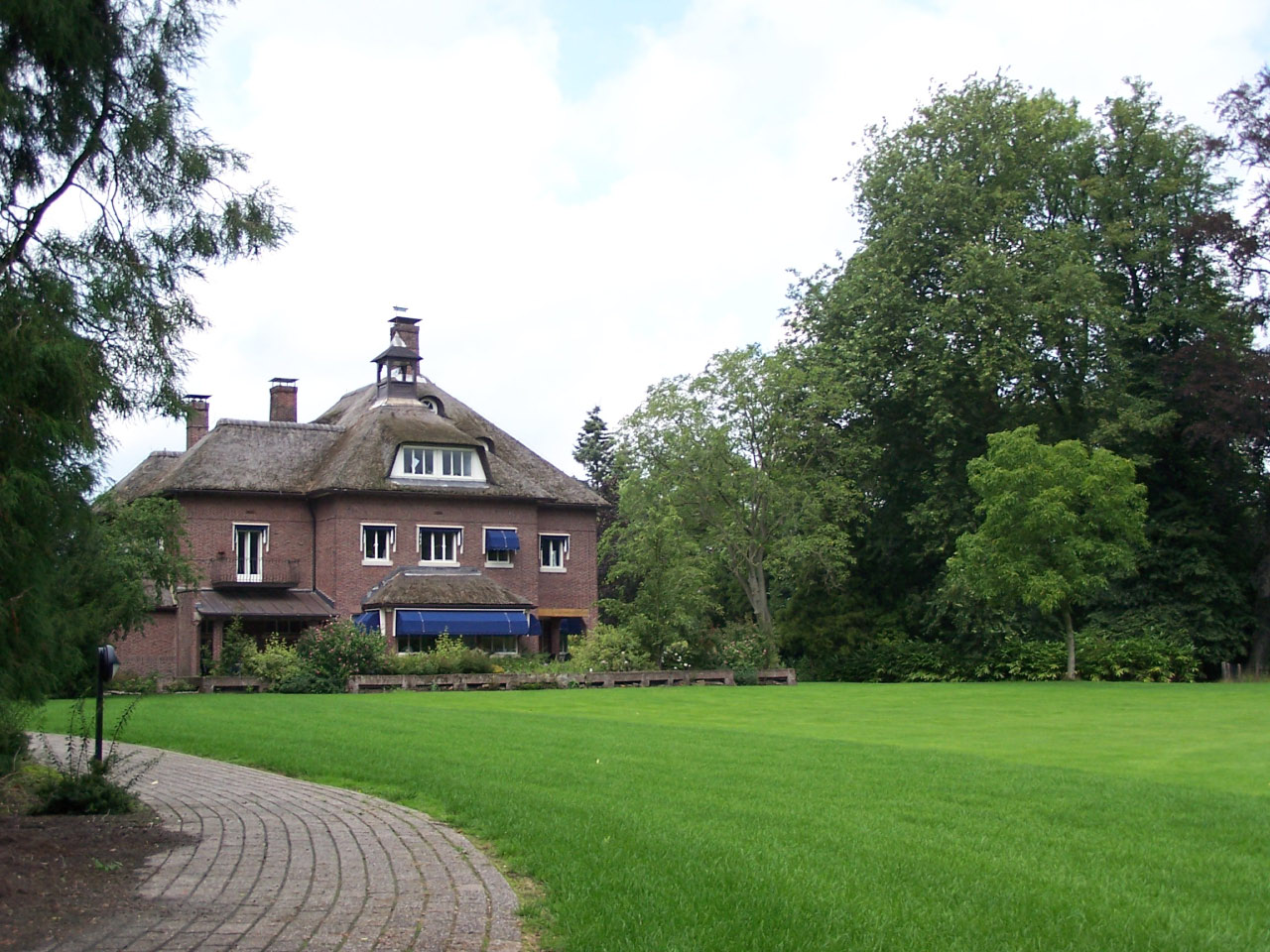 Backside of House Amelink in Lonneker (Municipality Enschede)